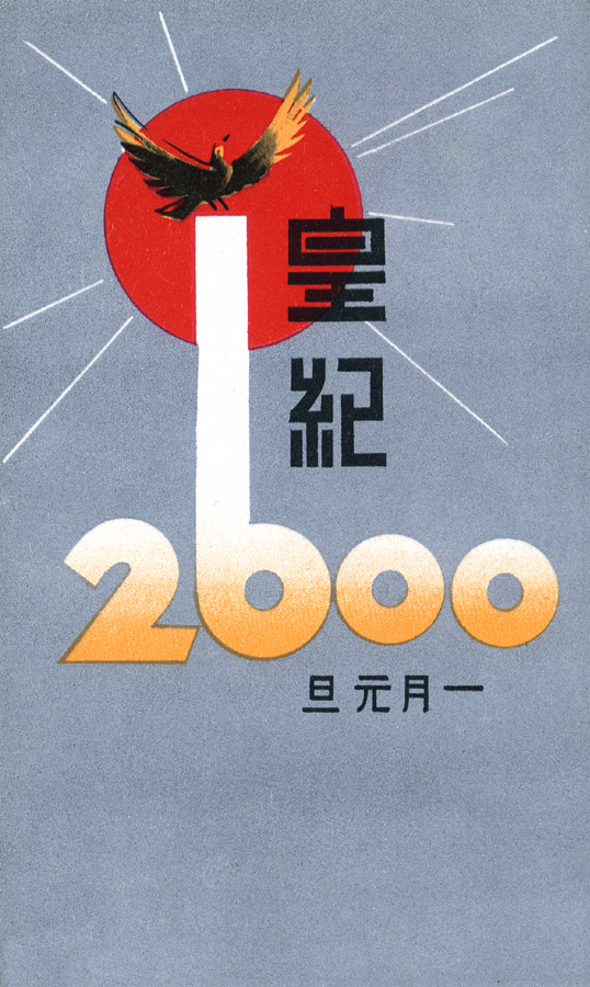 Japanese postcard to celebrate the 2600th anniversary of imperial era (Koki 皇紀) in 1940.